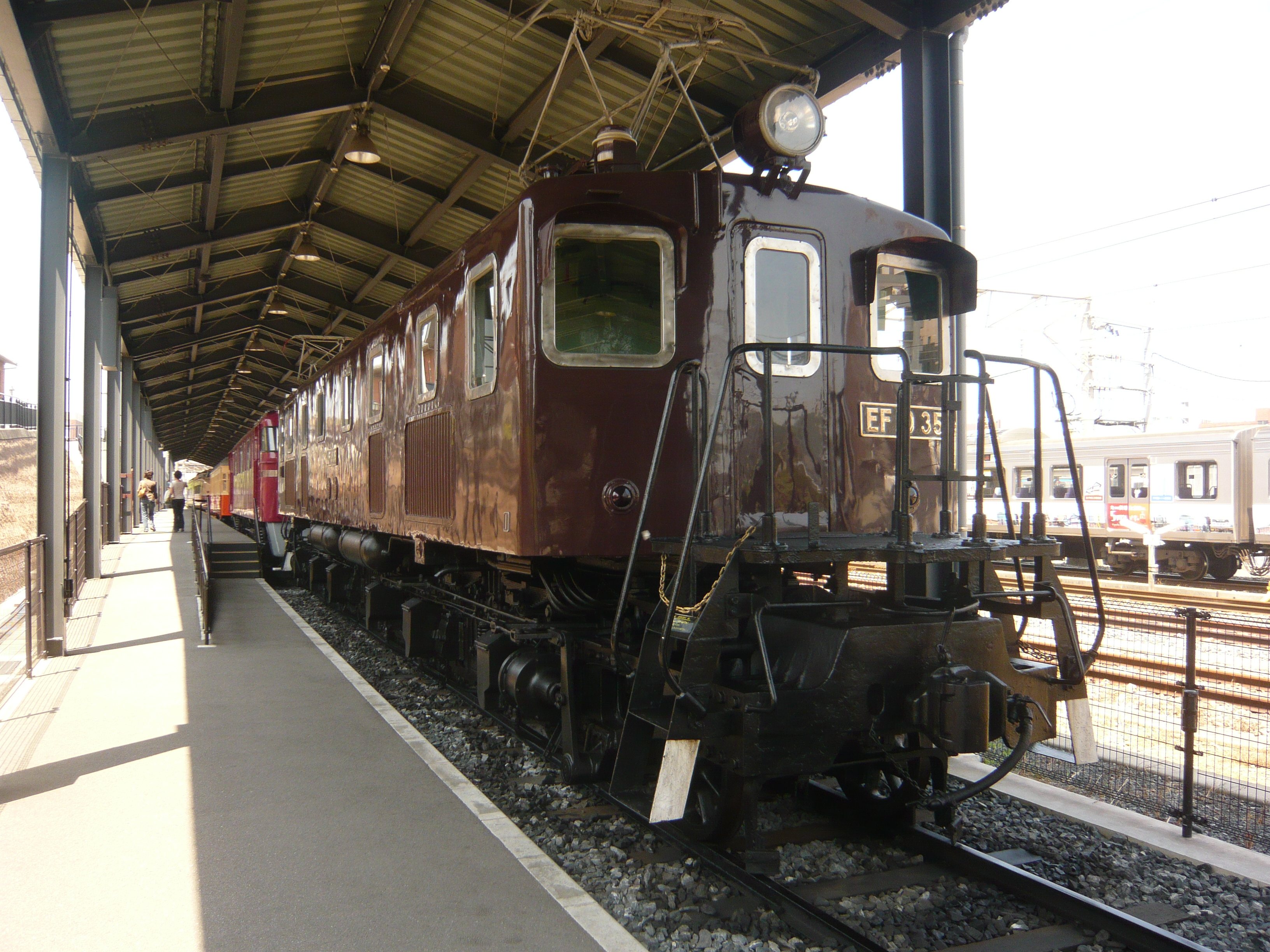 Preserved Class EF10 electric locomotive EF10 35 at the Kyushu Railway History Museum in Kitakyushu, Fukuoka, Japan